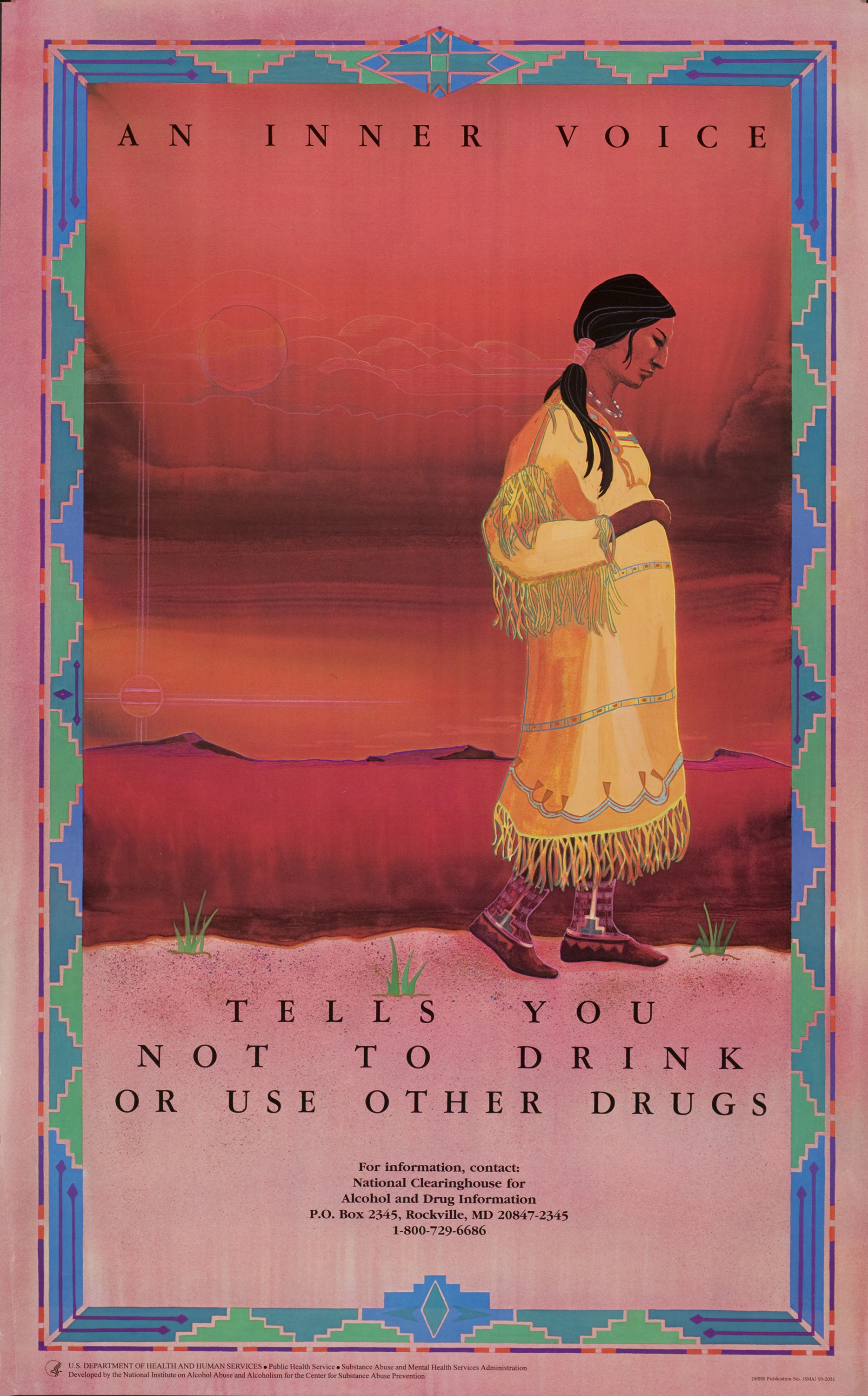 Contributor(s): National Institute on Alcohol Abuse and Alcoholism (U.S.) Center for Substance Abuse Prevention (U.S.) National Institutes of Health (U.S.). Medical Arts and Photography Branch. Publication: [Bethesda, Md. : Medical Arts and Photography Branch], 1993 Language(s): English Format: Still image Subject(s): Substance-Related Disorders -- prevention & control Pregnant Women Indians, North American Genre(s): Posters Abstract: A pregnant Native American Indian is standing in front of a southwestern background. Extent: 1 photomechanical print (poster) : 78 x 49 cm. Technique: color NLM Unique ID: 101451784 NLM Image ID: A025372 Permanent Link